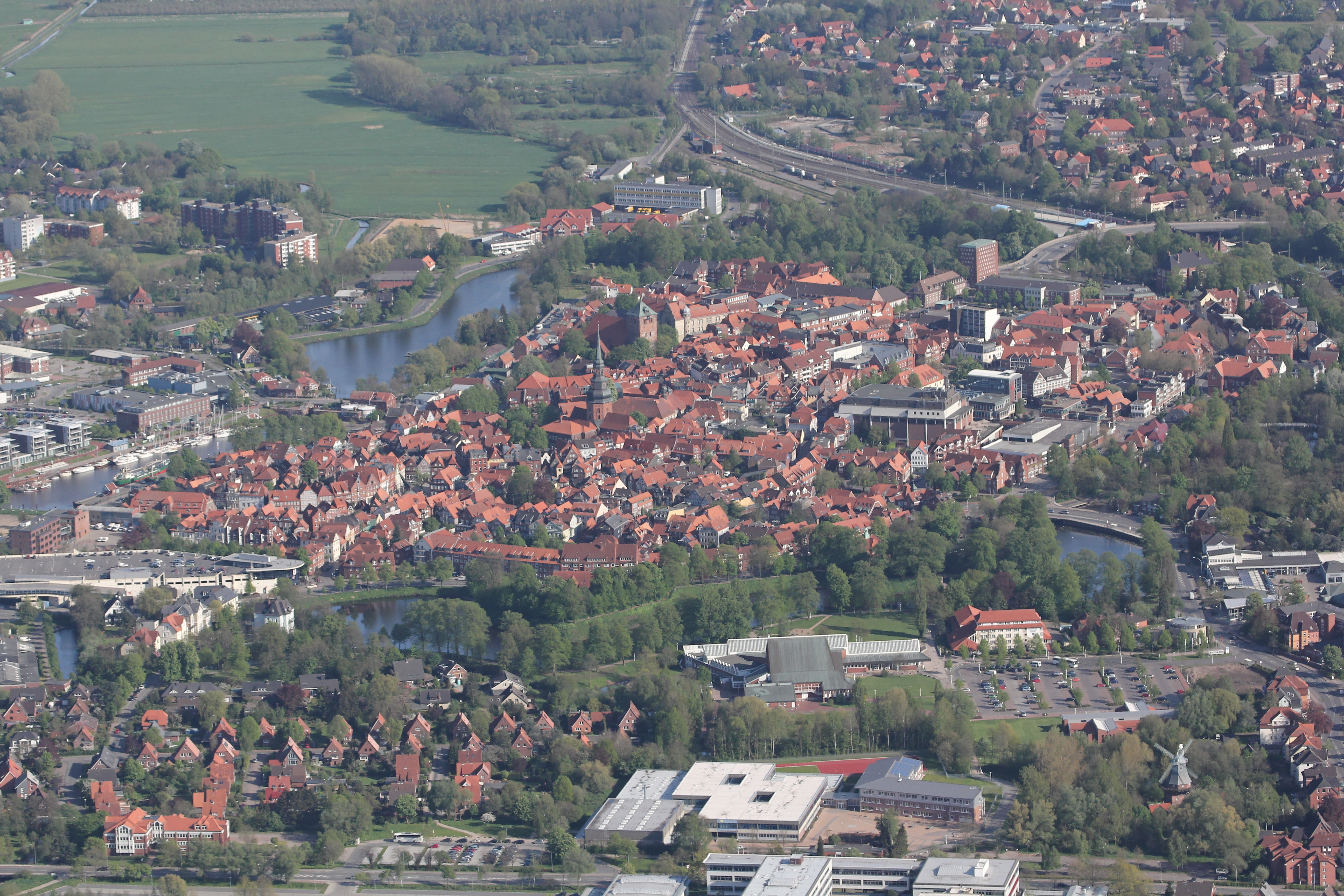 A aerial photograph of a unidentified location.